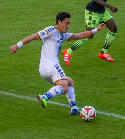 This file has been extracted from another file: Stefan Ishizaki vs Seattle Sounders 2.jpg